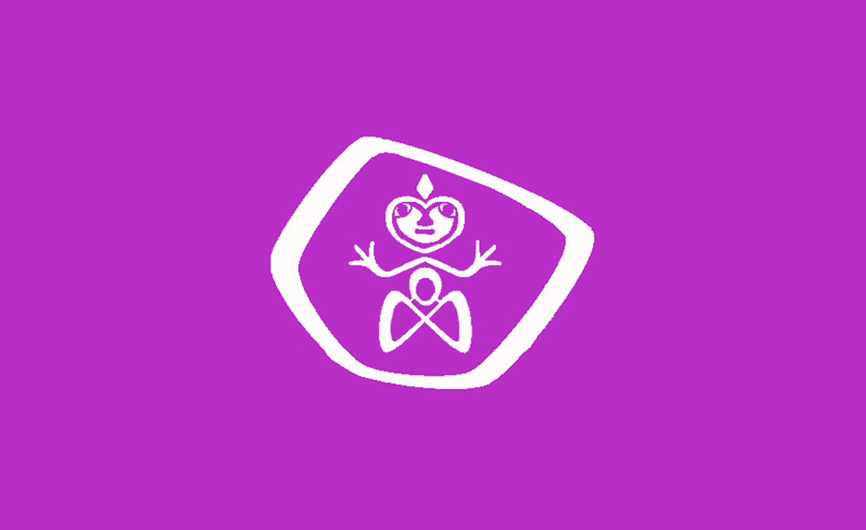 Flag of Moriori (Chatham Is., New Zealand)